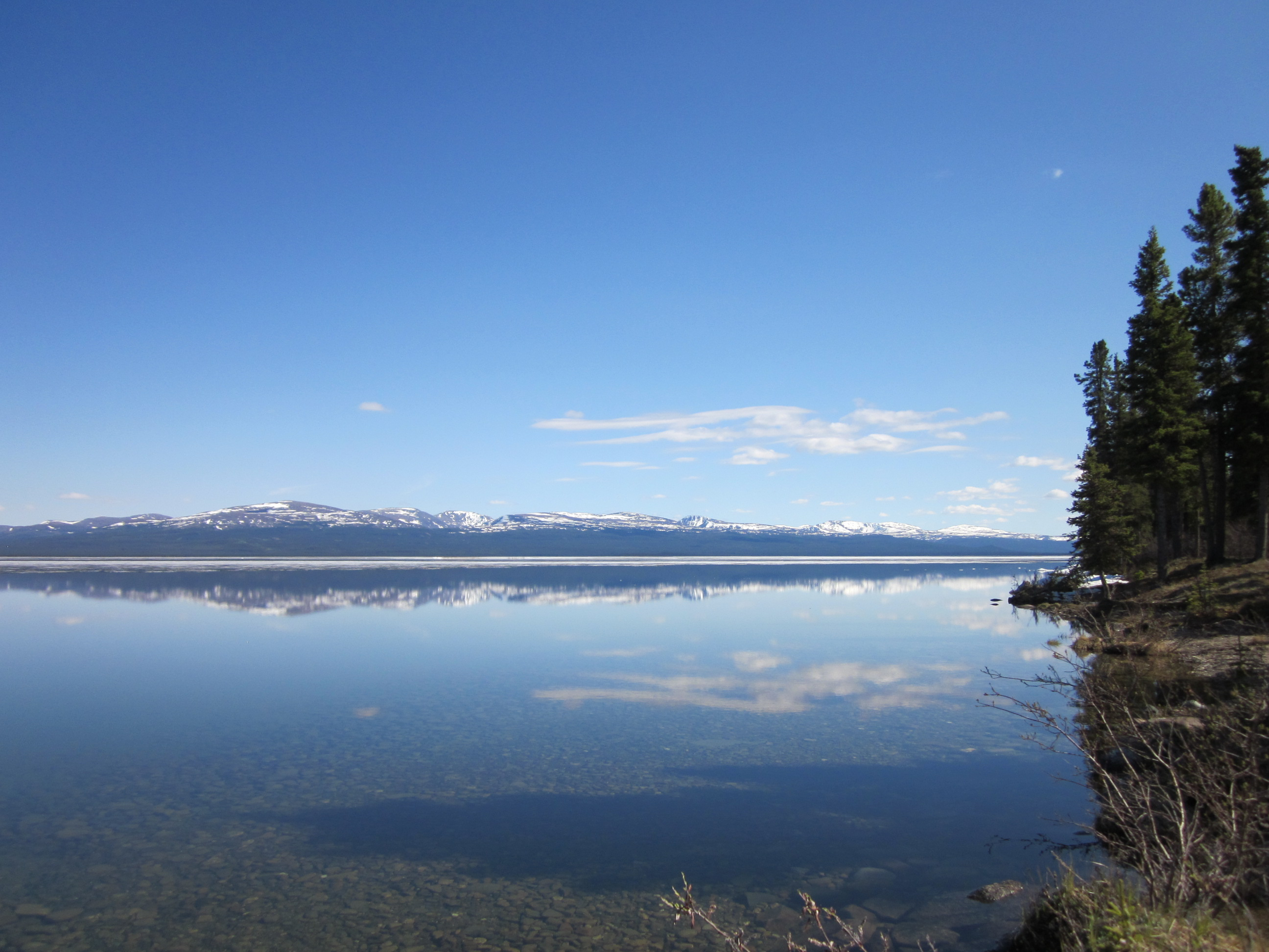 Photo of Wolf Lake in June showing snow capped mountains and ice on the lake.